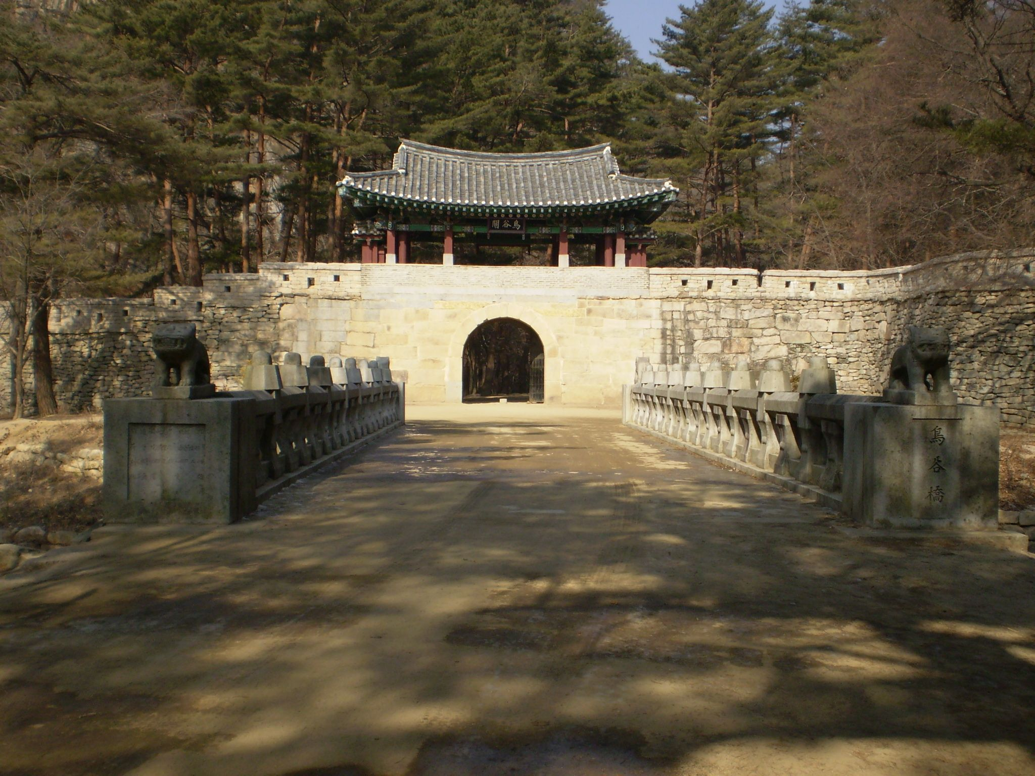 The second gate (조곡관) of Mungyeong Saejae.